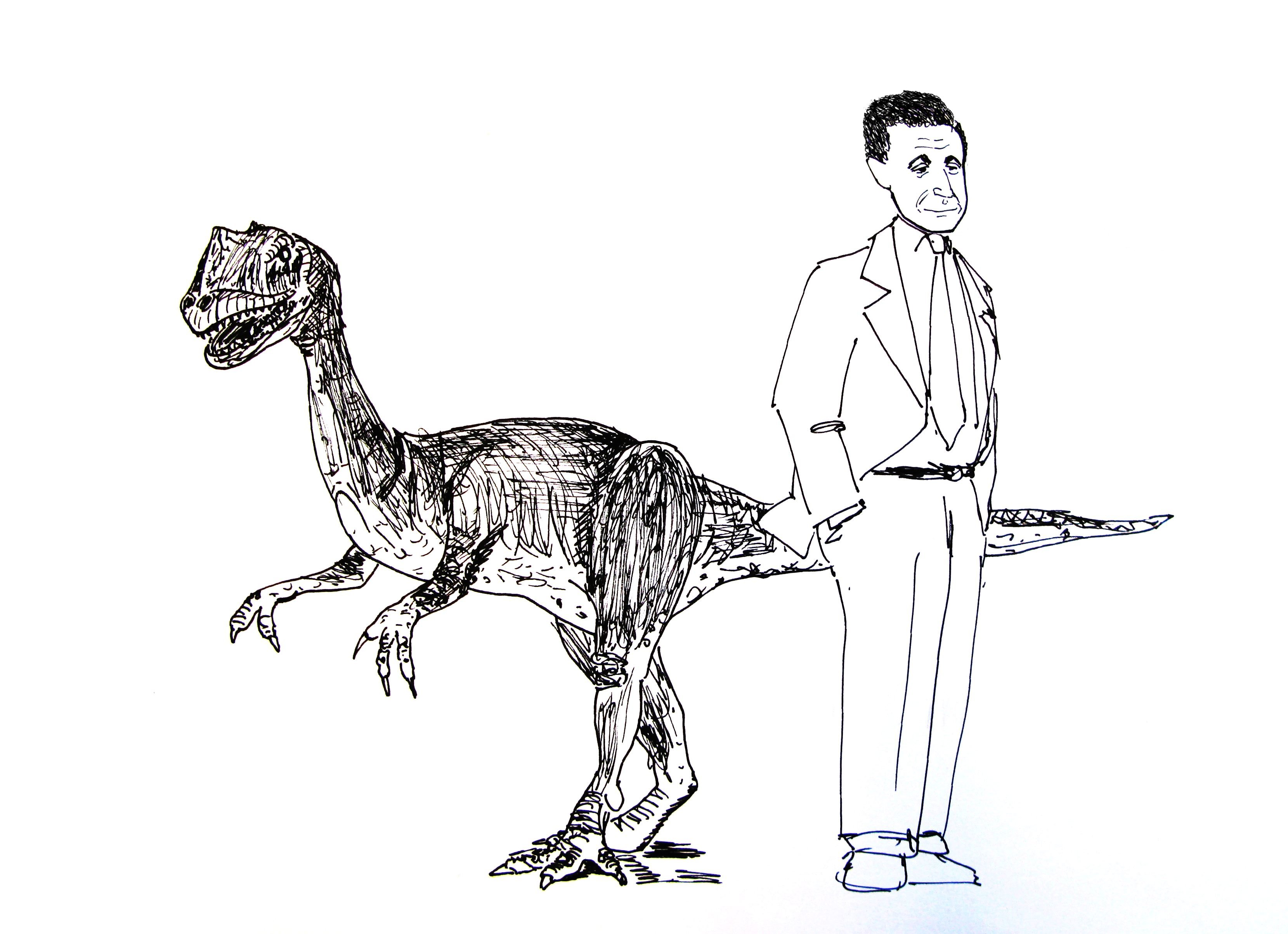 A Sarcosaurus, side-by-side with a non-contemporary Human